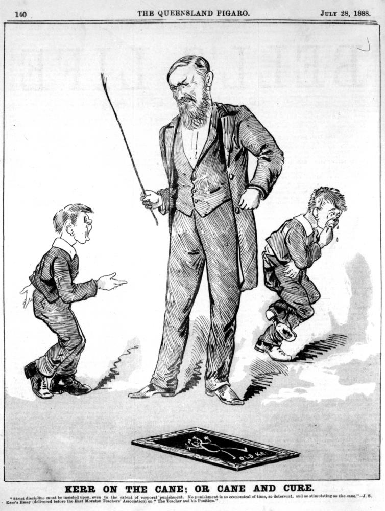 Cartoon of students receiving the cane, 1888 Cartoon drawing of two students receiving the cane from Mr J. S. Kerr. One boy has just been caned and sucks his fingers. The other boy stretches out his hand for punishment. A blackboard lies on the ground with a chalk drawing depicting 'Old Kerr'. Caption reads: Kerr on the Cane; or Cane and Cure. 'Strict discipline must be insisted upon, even to the extent of corporal punishment. No punishment is so economical of time. and so stimulating as the cane.' - J. S. Kerr's Essay (delivered to the East Moreton Teachers' Association) on 'The Teacher and his Position'.